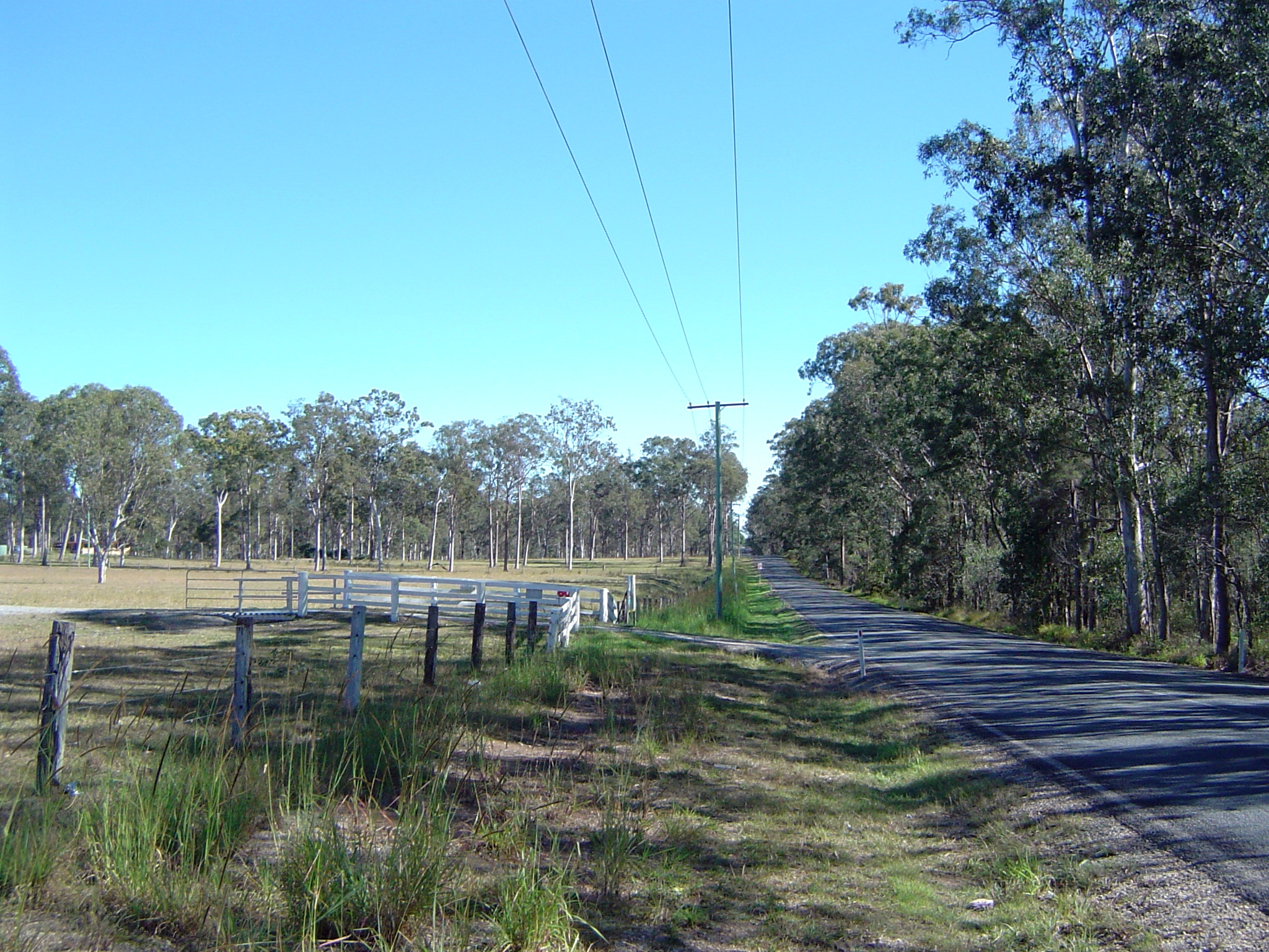 Photo of paddocks and Dairy Creek Road at Waterford in Logan City, Queensland, Australia. The suburb of Buccan is on the left of the road and Waterford to the right.